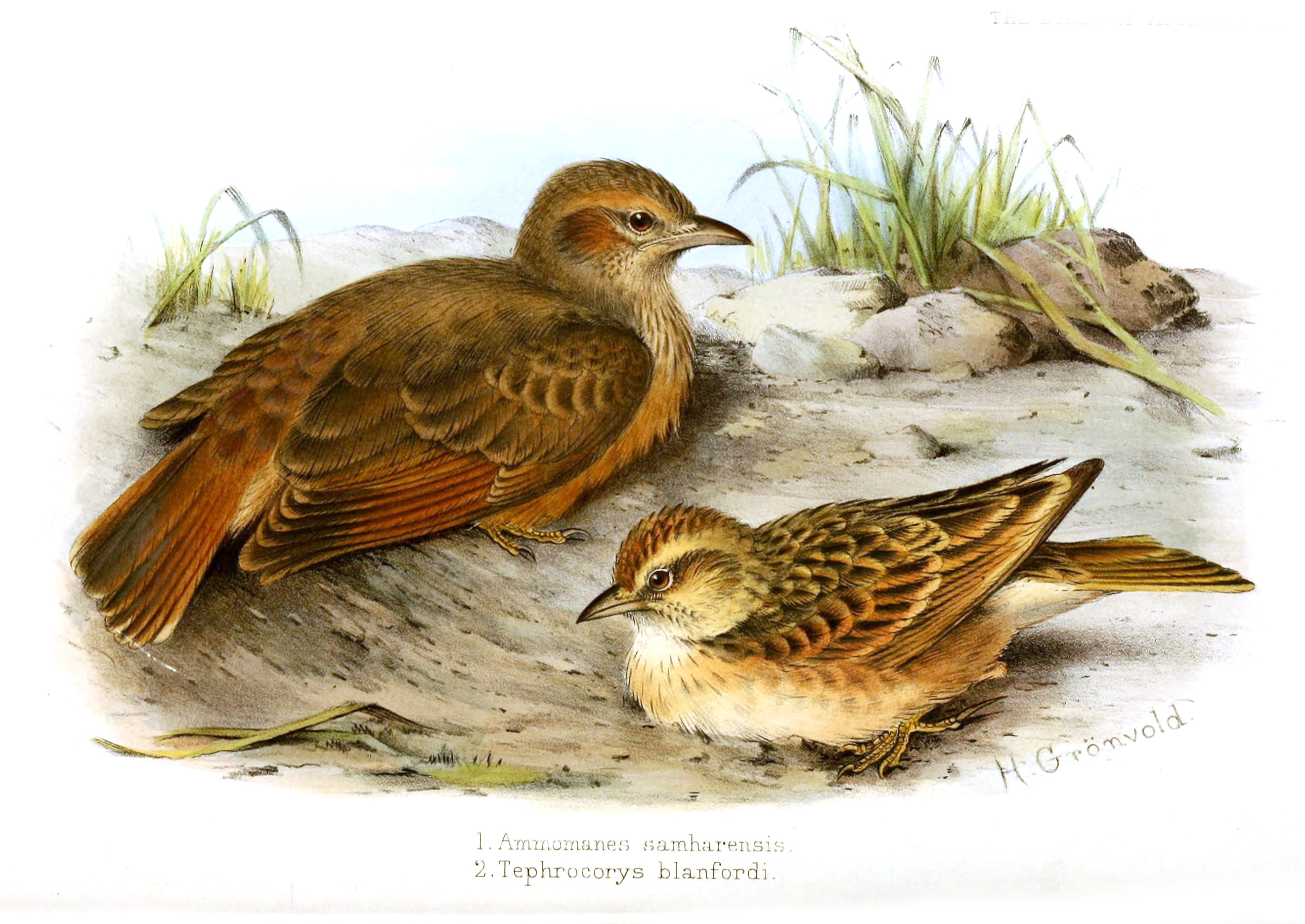 Desert lark, Ammomanes deserti samharensis Shelley, 1902 (top), and Blanford's lark, Calandrella blanfordi (Shelley, 1902) (bottom)